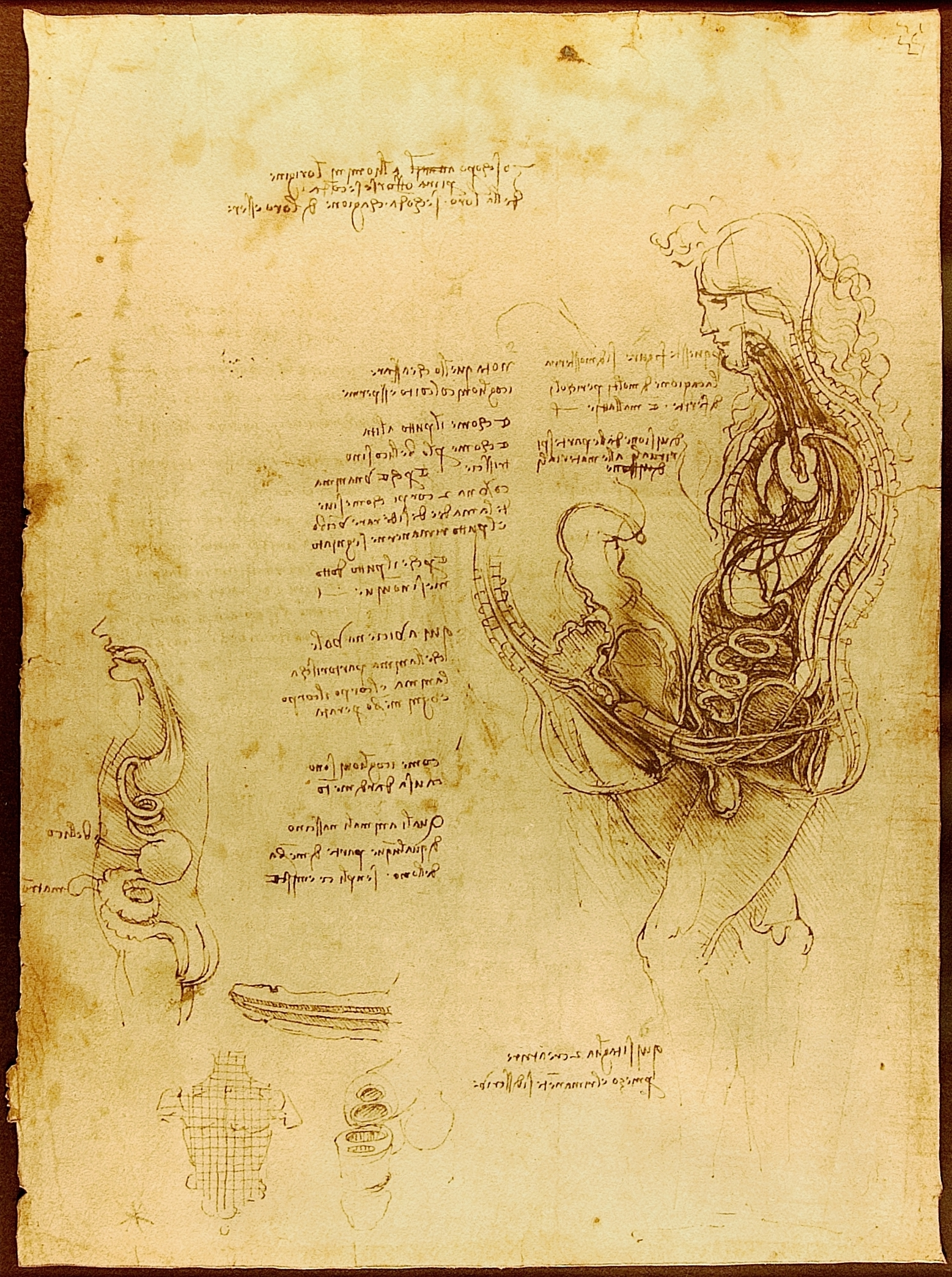 drawing